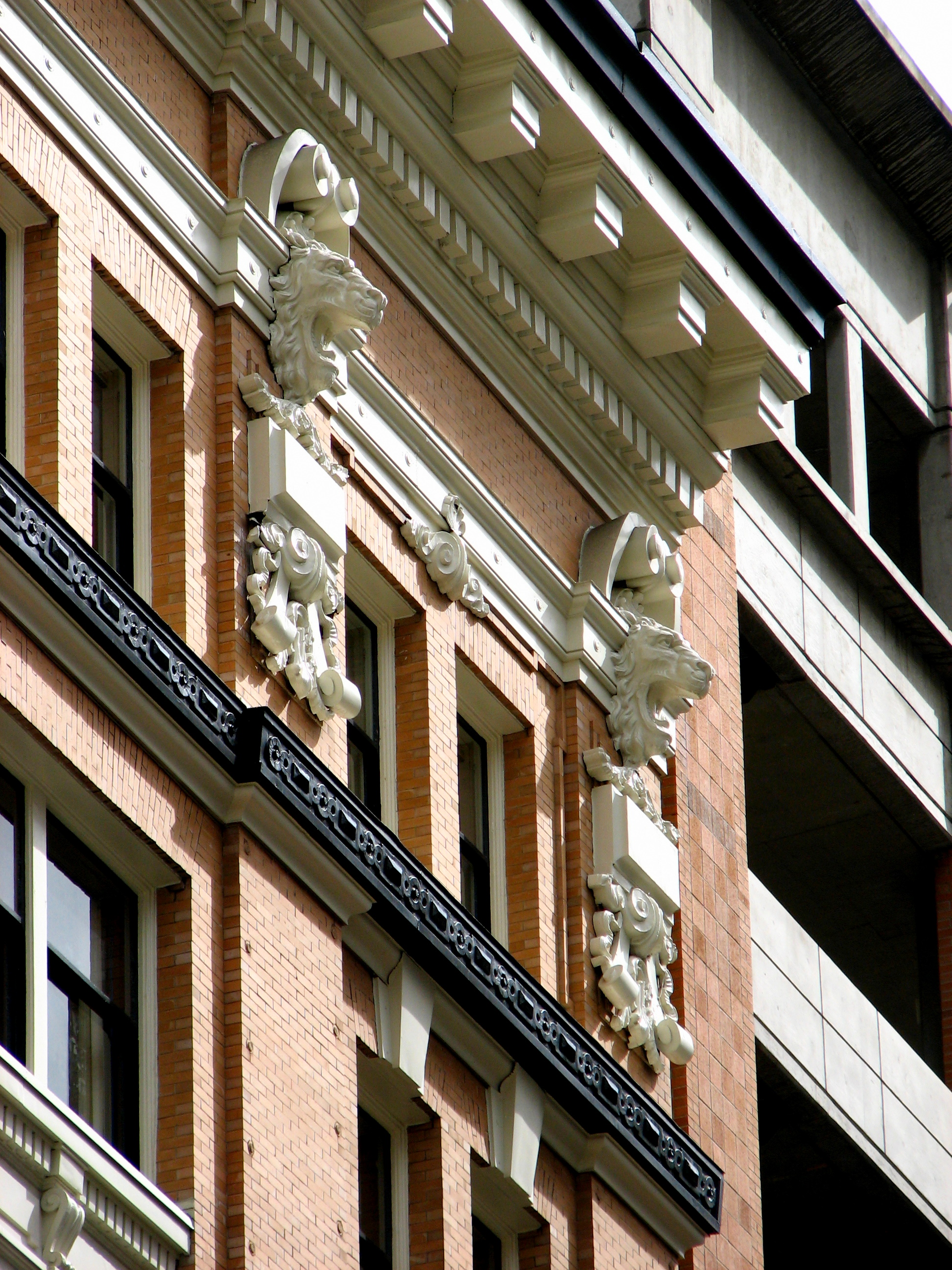 The historic Electric Building (built 1910), located at 621 Southwest Alder Street in Portland, Oregon, United States, is listed on the US National Register of Historic Places (NRHP).